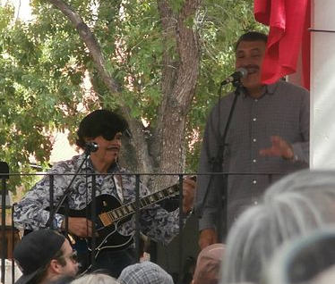 Al Hurricane performing at the San Felipe De Neri 2014 fiestas 3 A crop of another image, focusing on Al Hurricane and Al Hurricane, Jr.